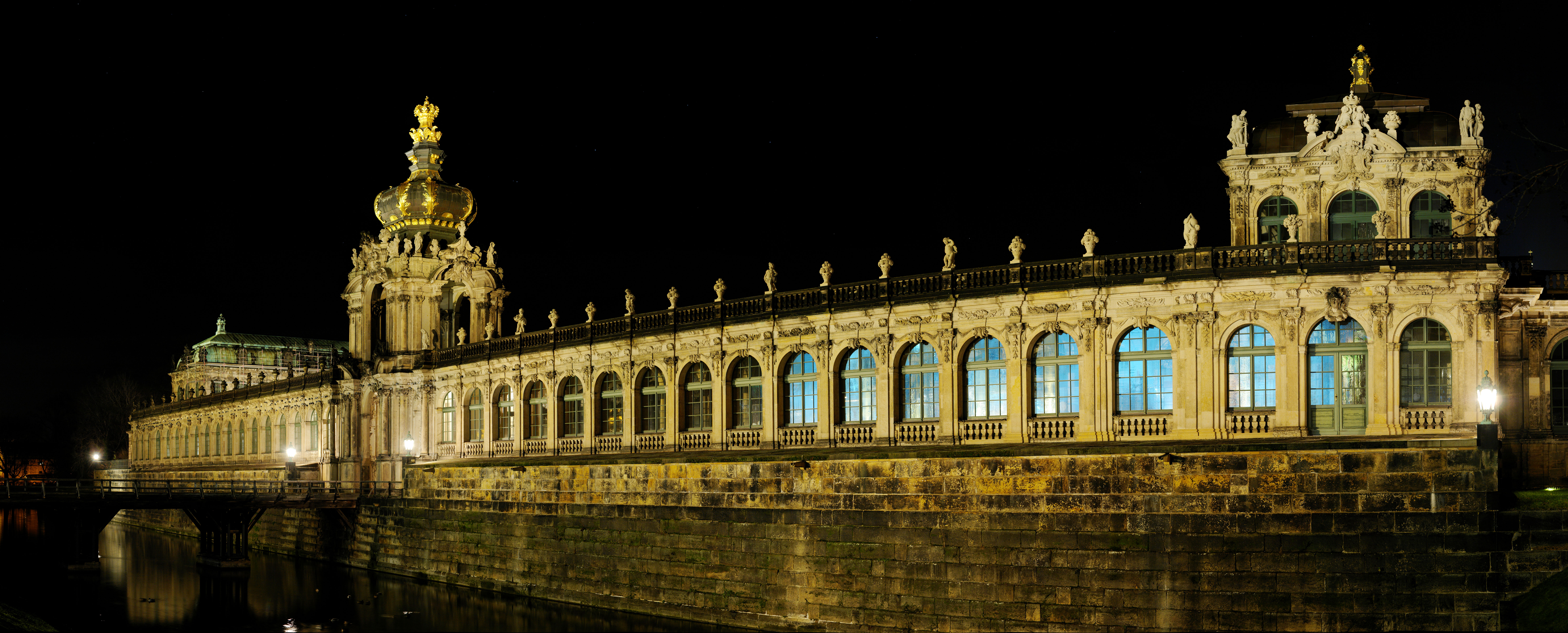 The Zwinger in Dresden at night